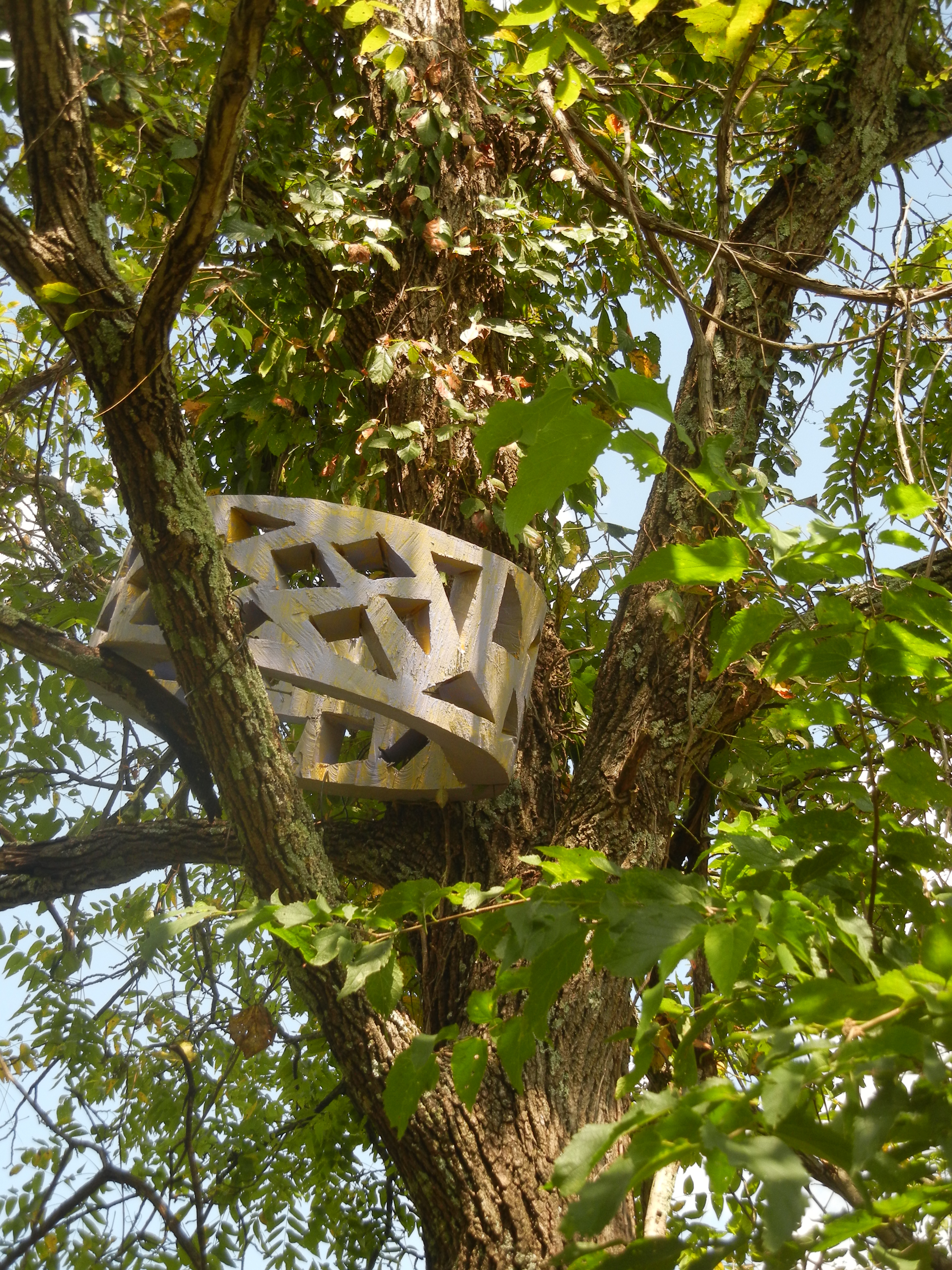 Sculpture by Heike Endemann: Insight for Josephine. 2015. Installed at Josephine Sculpture Park, Frankfort, Kentucky, USA.